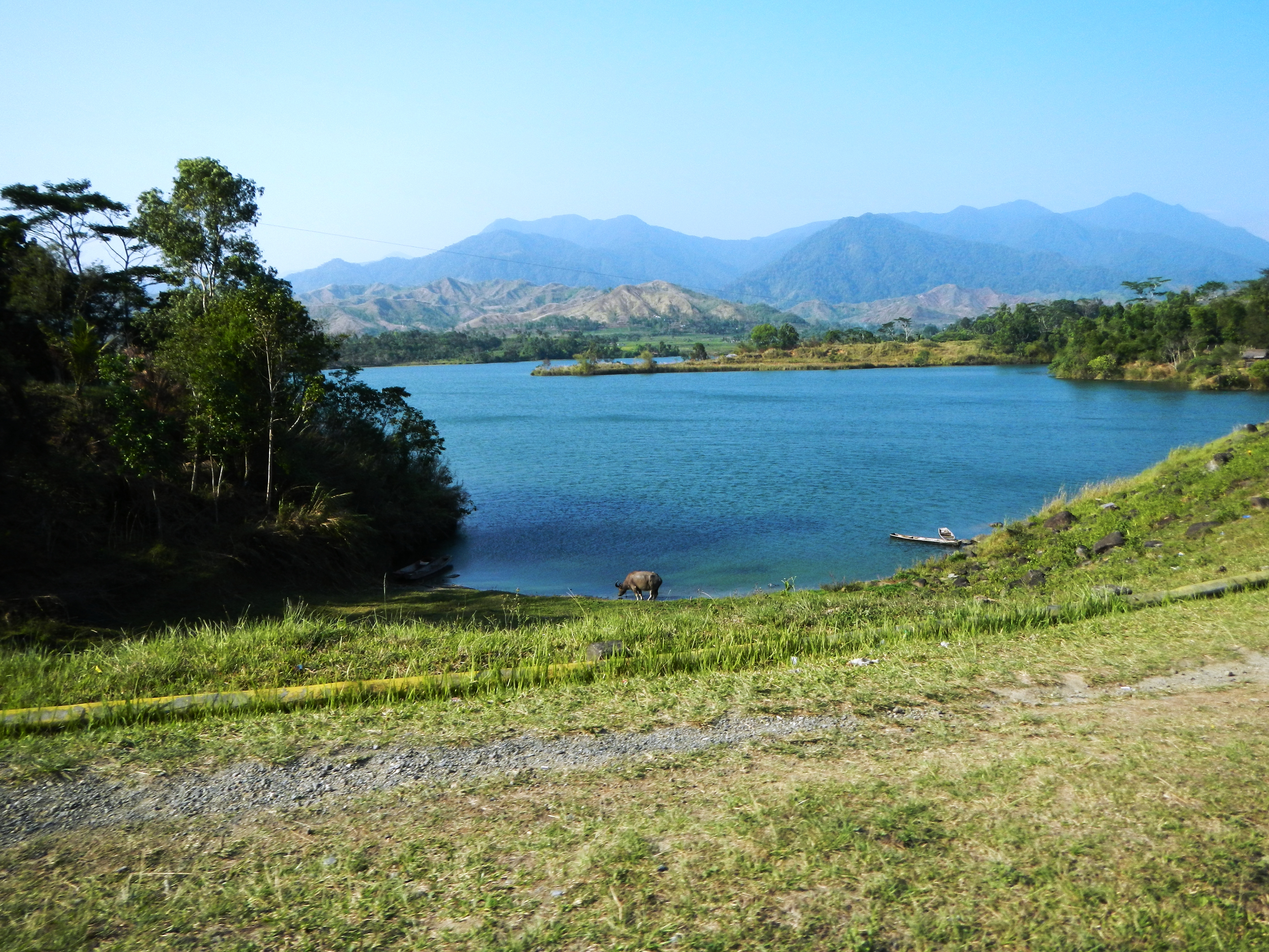 Maria Aurora, Aurora Aurora (province) (Upon entering the province via Pantabangan, Nueva Ecija you’ll pass over the Canili Dam and the road I passed on was actually built on the dike that was constructed to dam a river to create the Pantabangan Dam. This is the view on the left side of the road with plenty of very deep forest ravine a breathtaking sight to behold!: notes: Pampanga River flows to Pantabangan Dam in twin towns sharing of Alfonso Castañeda, Nueva Vizcaya and Maria Aurora, Aurora Aurora (province) gateway toTown Proper (along the picturesque Pan-Philippine Highway of Maria Aurora to Baler National Highway taken from moving Genesis Transport bus) Note: Canili and Diayo Dams and Reservoirs, Maria Aurora [1] (Manmade Structures Dams, Coordinates (WGS84) 15° 47.351N 121° 19.066E Elev: 309m)[2][3]. The 4-decade old dam is a tributary of Pantabangan Dam that irrigates more than 100,000 hectares of farmlands in the provinces of Pampanga, Nueva Ecija, Tarlac and Bulacan in Central Luzon; Diayo dam, which was simultaneously built along with Pantabangan Dam in 1970s, was designed only for light vehicles; it has been transformed into a major part of BPR when Baler-Bongabon road, then a major road network linking Aurora to Nueva Ecija, was devastated by a series of typhoons in 2004; the Dams are situated in the deep canyons of the Canili and Diayo rivers in the Baler-Aurora basin; he confluence of the two rivers is about 800 meters downstream of the Canili damsite where it forms the Cabatangan River, which flows east to the town of Baler and empties into the Philippines Sea.[4]).